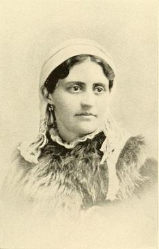 Ellen Van Antwerp